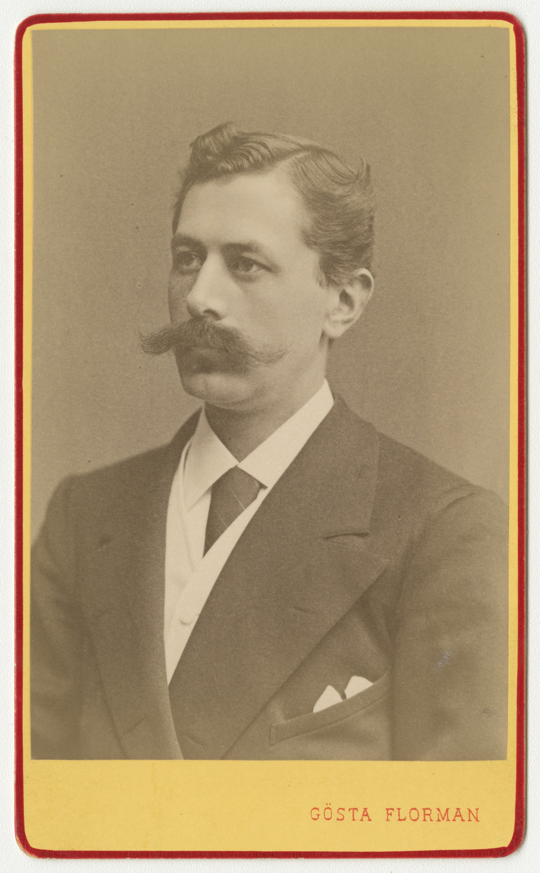 Belongs to the Army Museum Sweden archive